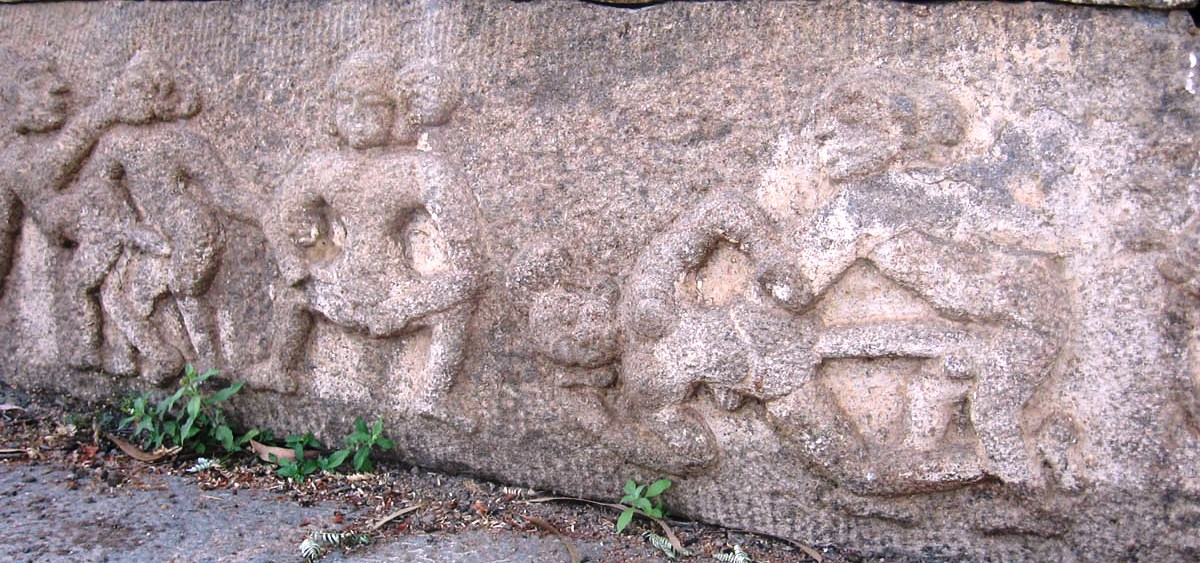 தமிழ்நாட்டில் உள்ள திருவண்ணாமலை மாவட்டத்தில் தானிப்பாடி என்ற கிராமத்தில் 14 ஆம் நூற்றாண்டில் அப்பகுதியை ஆண்ட குறுநில மன்னன் சிறுவயதில் திருமணம் செய்து அனுப்பிய மகள் வாழாவெட்டியாக கணவனை துறந்து புகுந்த வீடு வந்ததால் மனம் நொந்து தன் மகளுக்கு கலவி எ செக்ஸ் பற்றி அறிந்துக்கொள்ள மறைமுகமாக அப்பெண் குளிக்கும் குளத்தை விதவிதமான உறவுகள் கொண்ட குளமாக கட்டப்பட்டது.